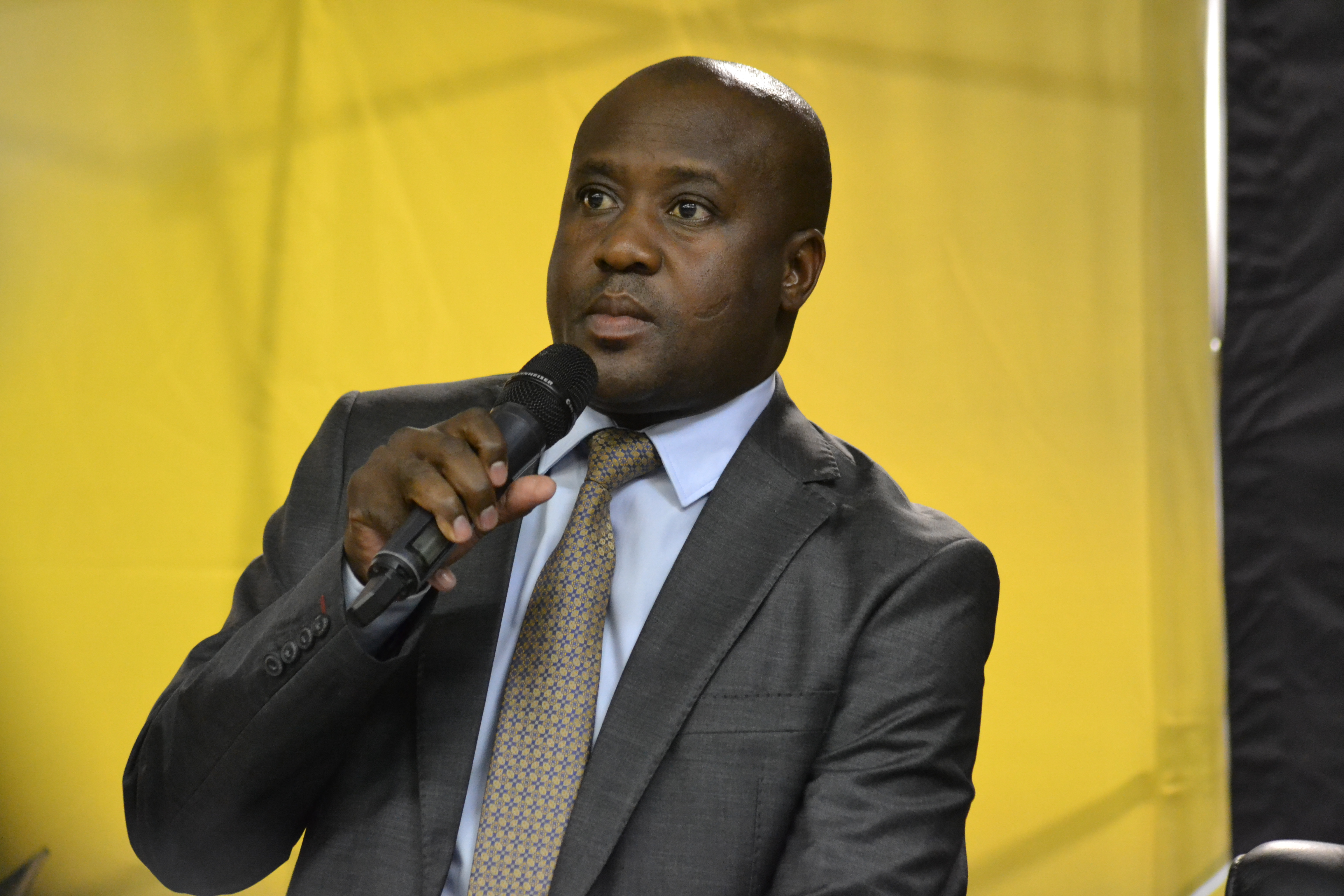 ANC politician